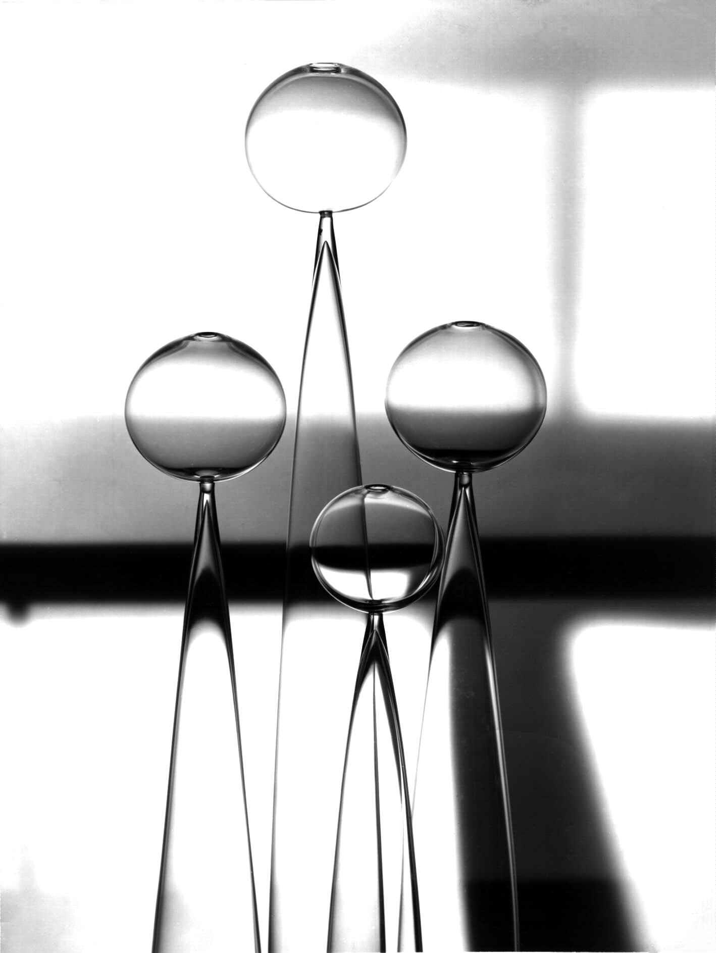 "Sphere over cone" glass design av photography by John Selbing (1953)